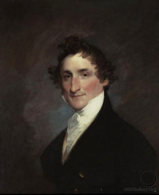 Portrait of Captain James Thompson Gerry, died 1855